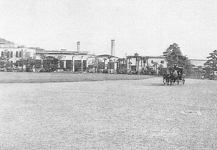 Hironiwa(present-day "New Palace")